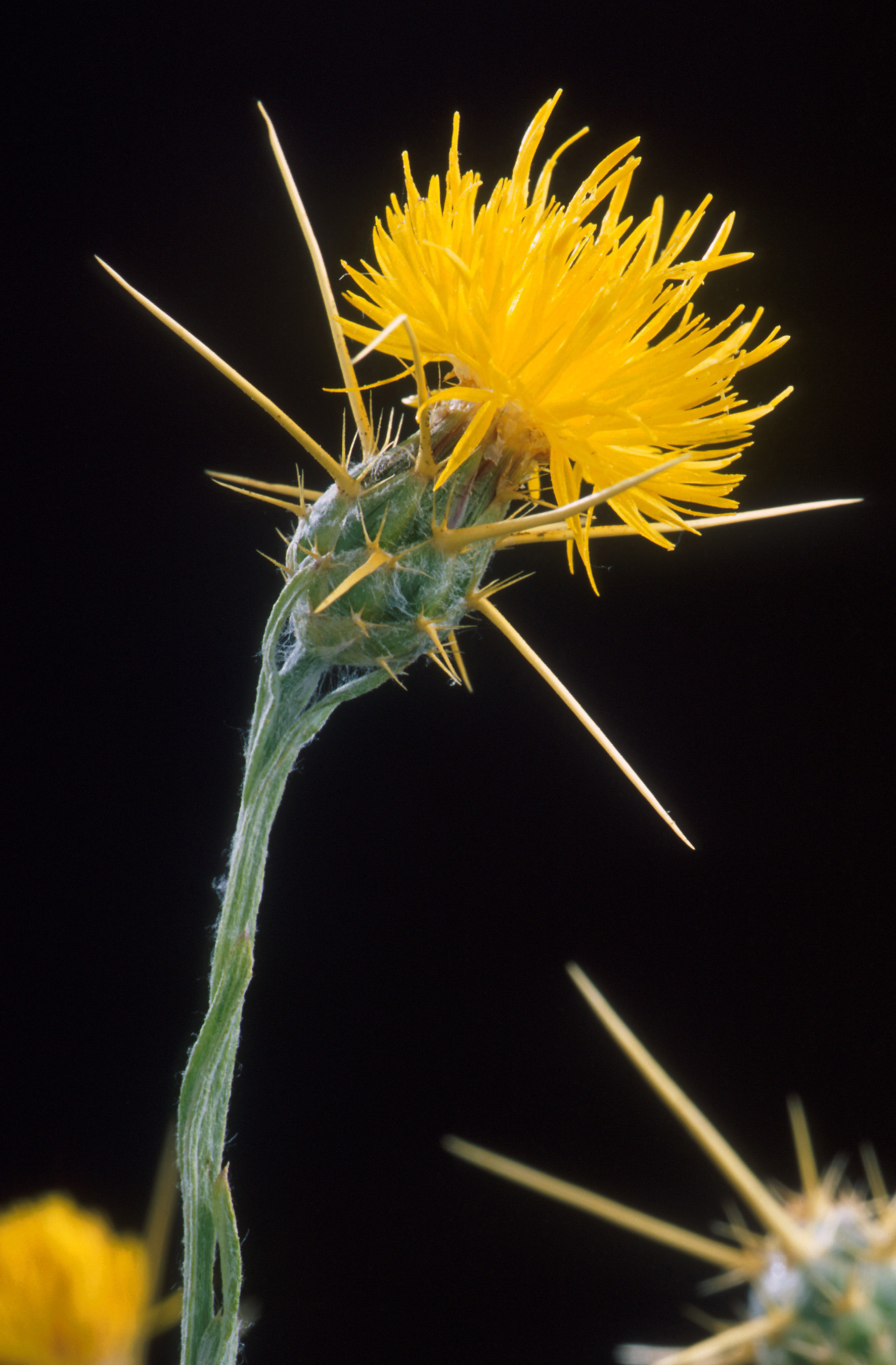 Close-up of Yellow Star-thistle (Centaurea solstitialis).